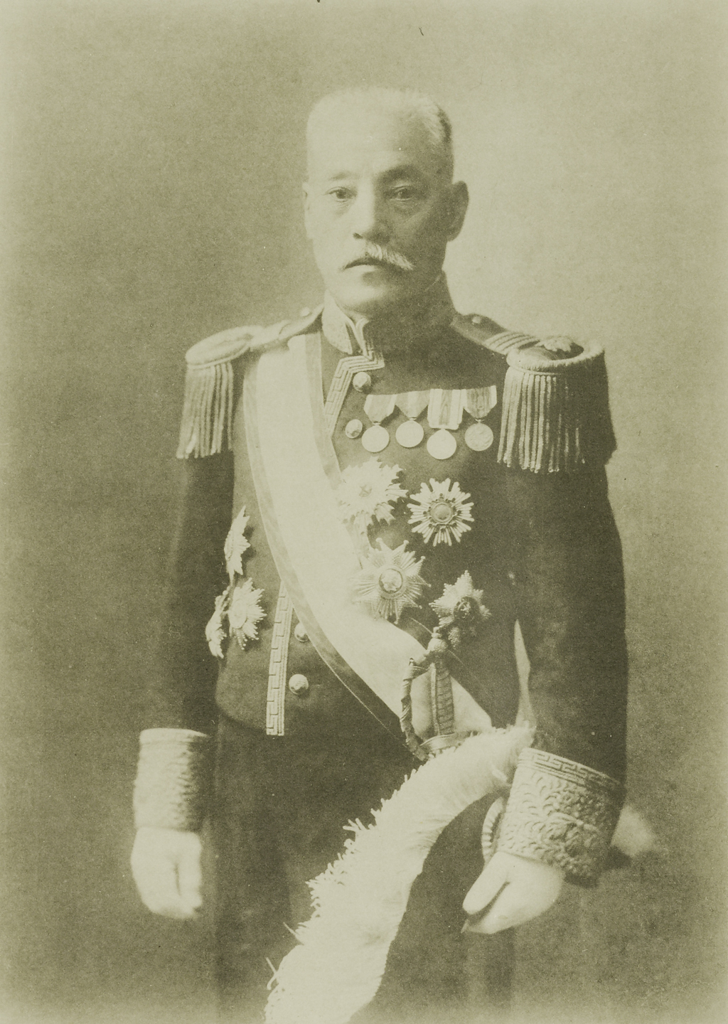 Portrait of Kurino Shin'ichiro (栗野慎一郎, 1851 – 1937)